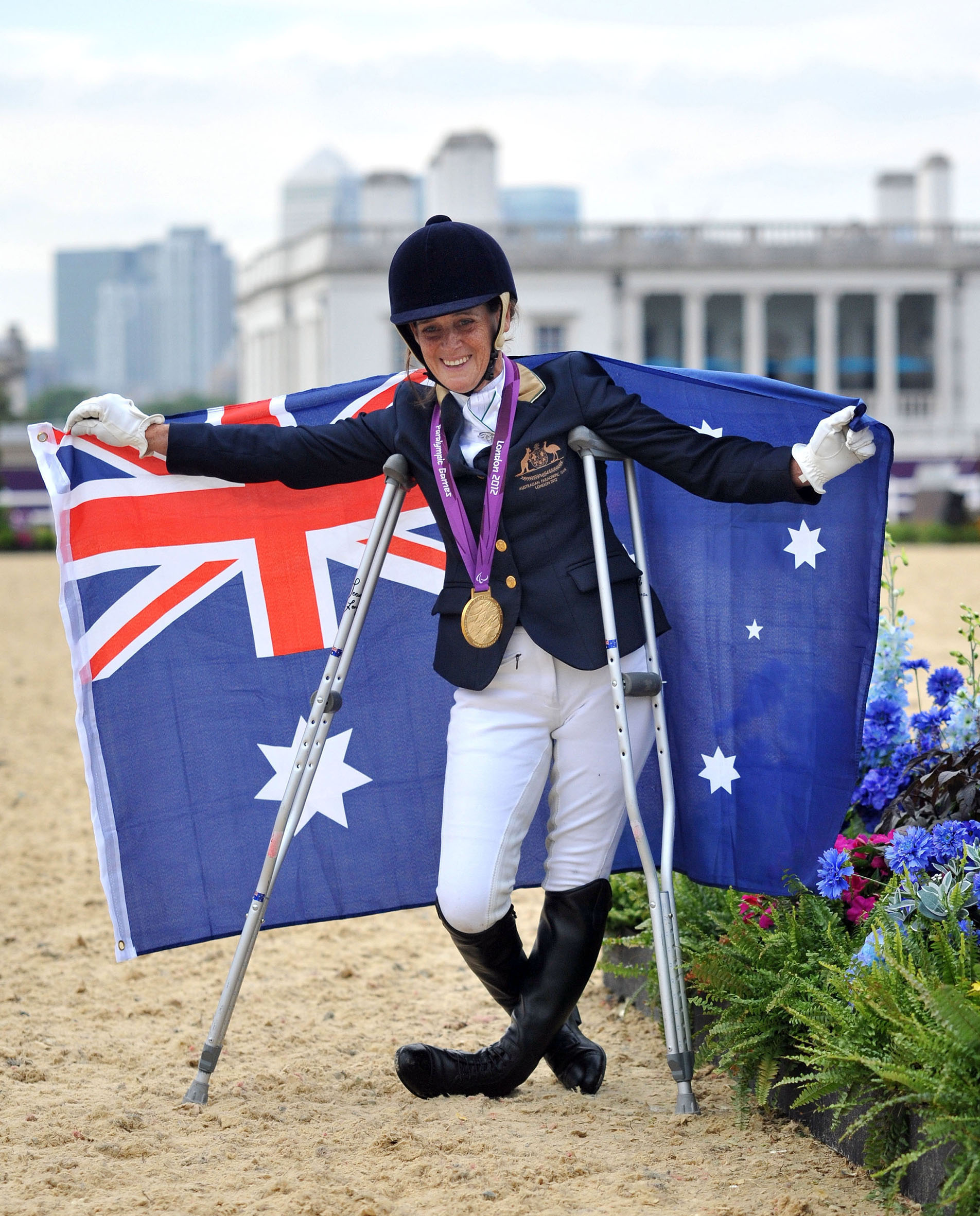 Photograph of Australian Paralympic team member Joann Formosa at the 2012 Summer Paralympic Games in London